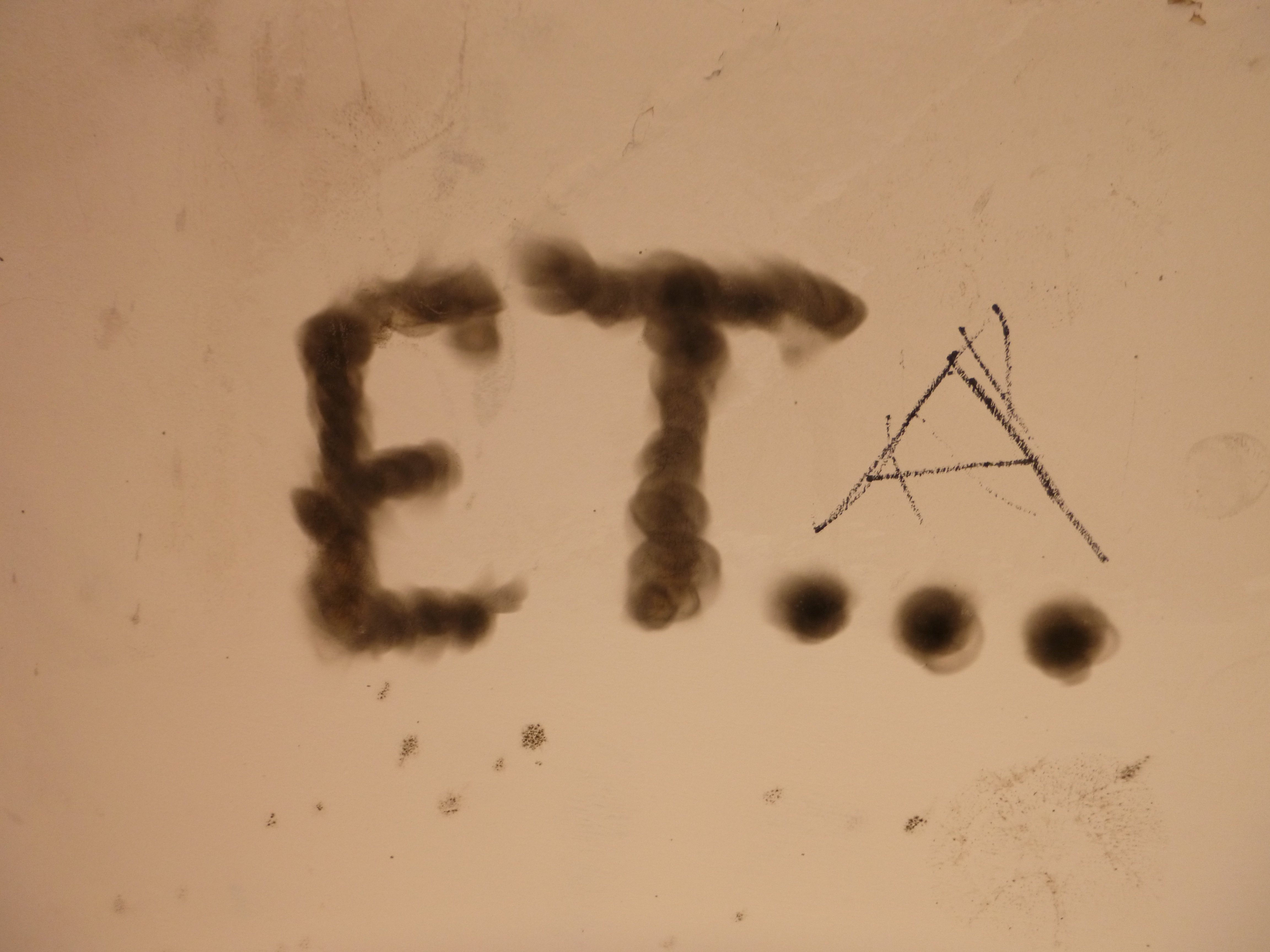 Eta graffiti in fedearen Pasealekua